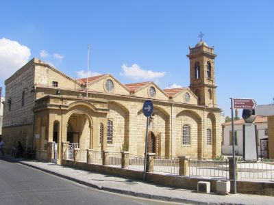 The Agios Savvas church in Nicosia, Cyprus - southern (Greek) part